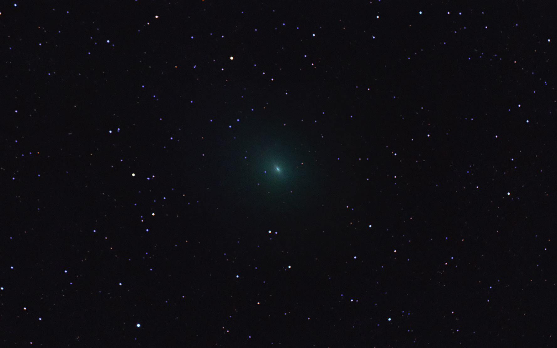 Comet 45P/Honda–Mrkos–Pajdušáková, Feb 10, 2017, 09:54 UT.